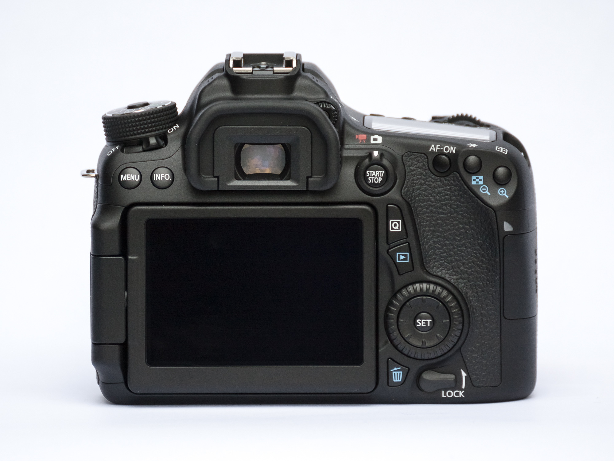 Canon EOS 70D body without lens